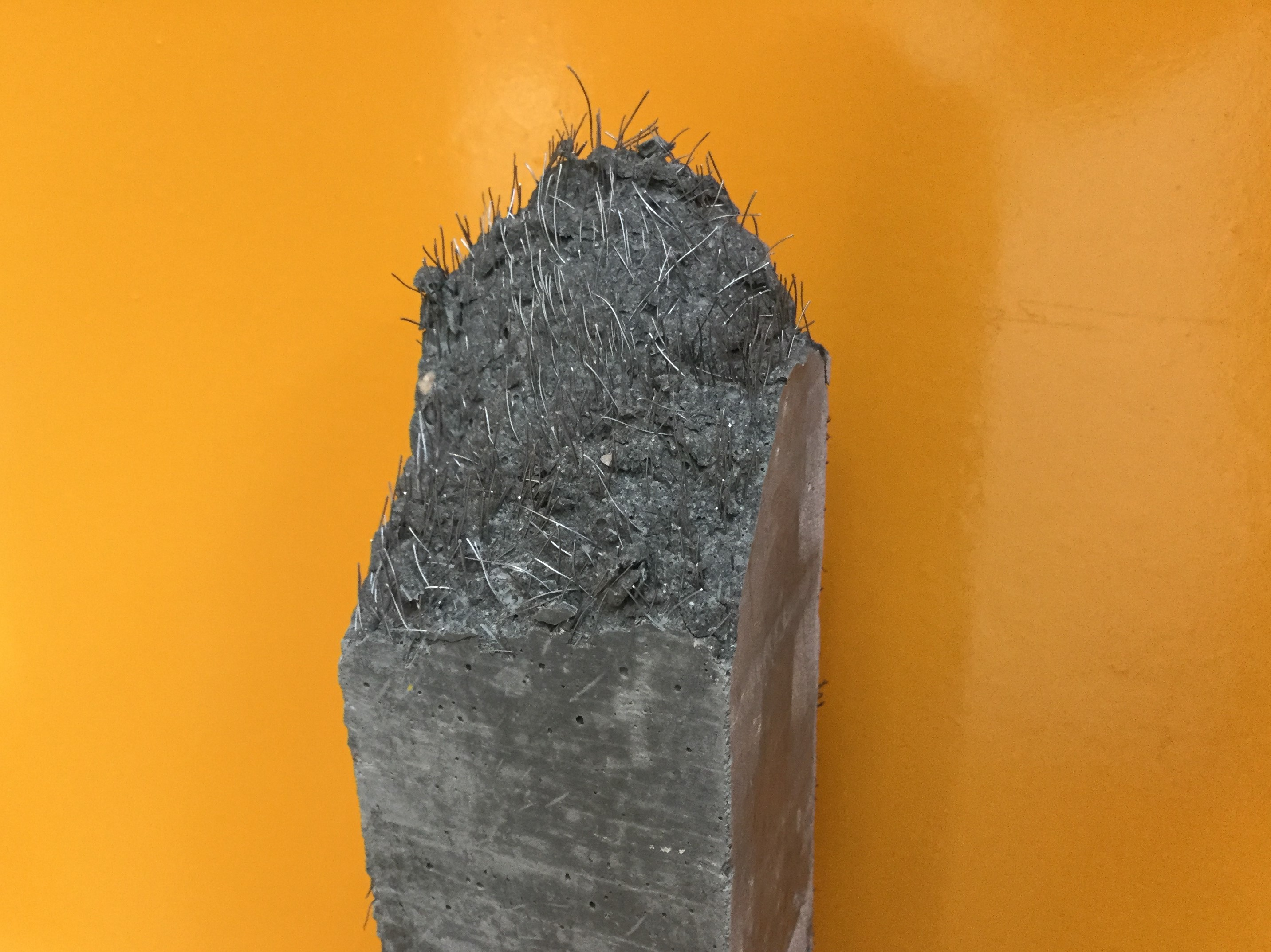 Specimen of UHPFRC - Ultra-High Performance Fiber Reinforced Concrete